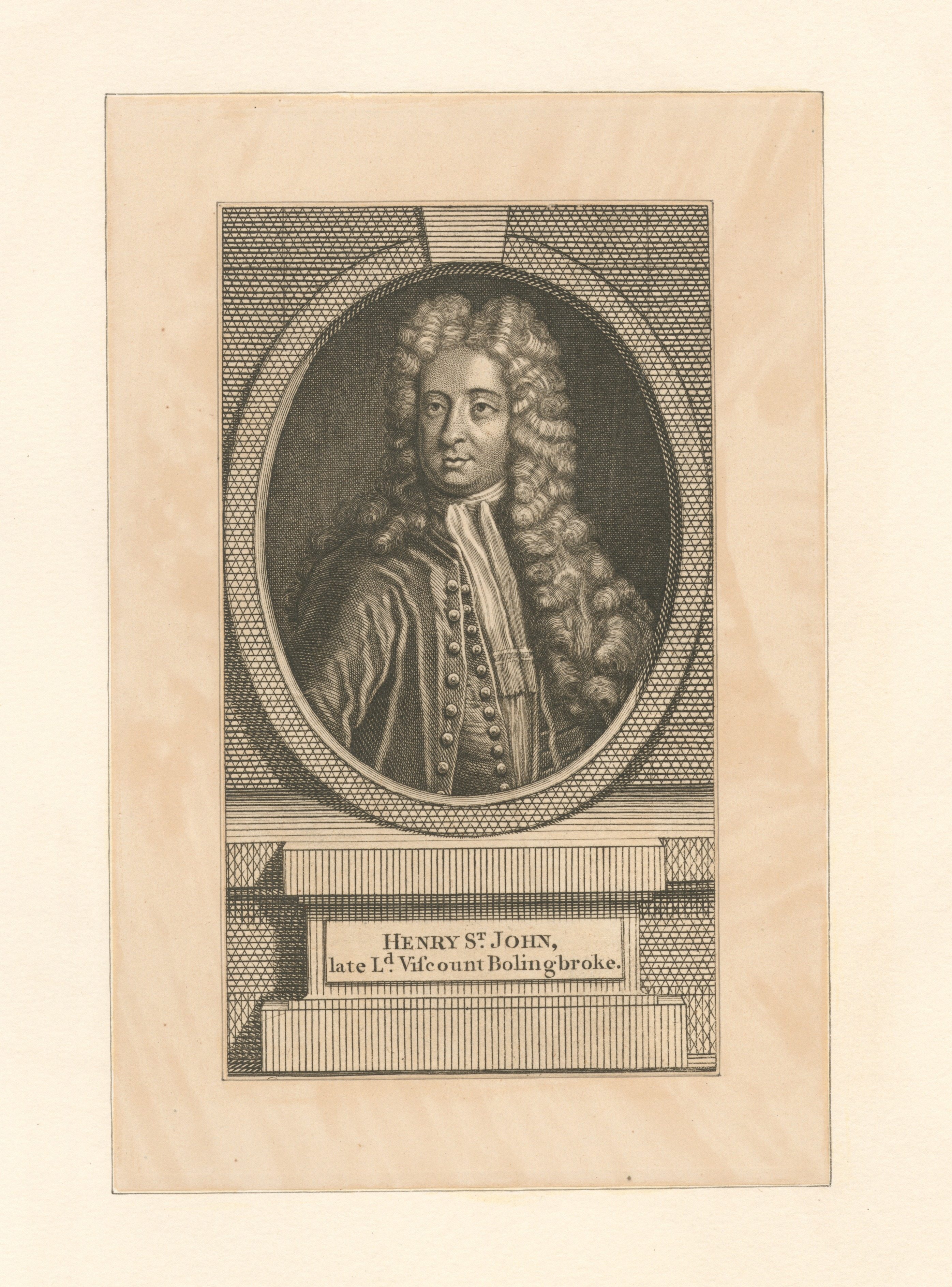 EM3376